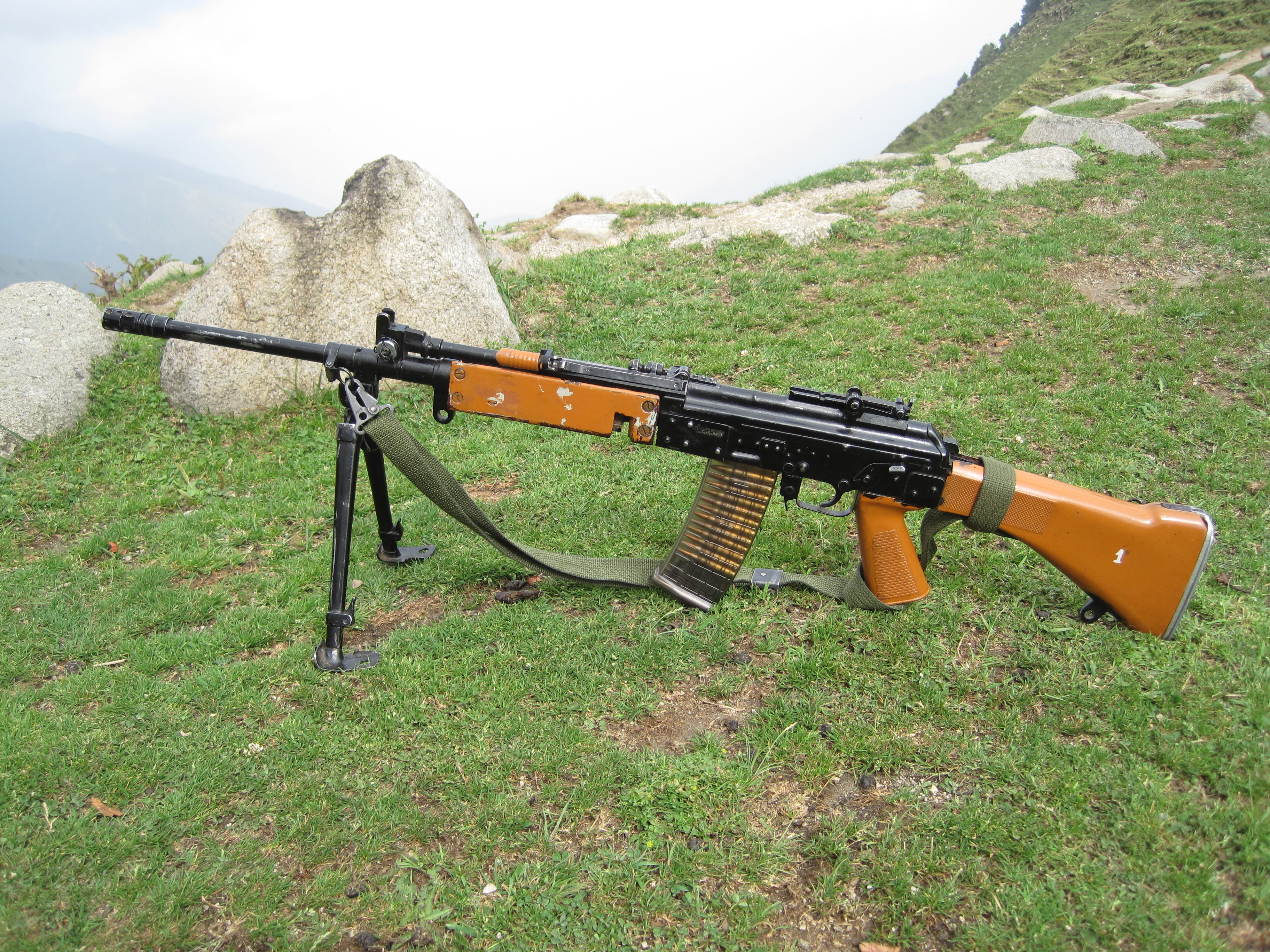 Light Machine Gun variant of INSAS 5.56mm